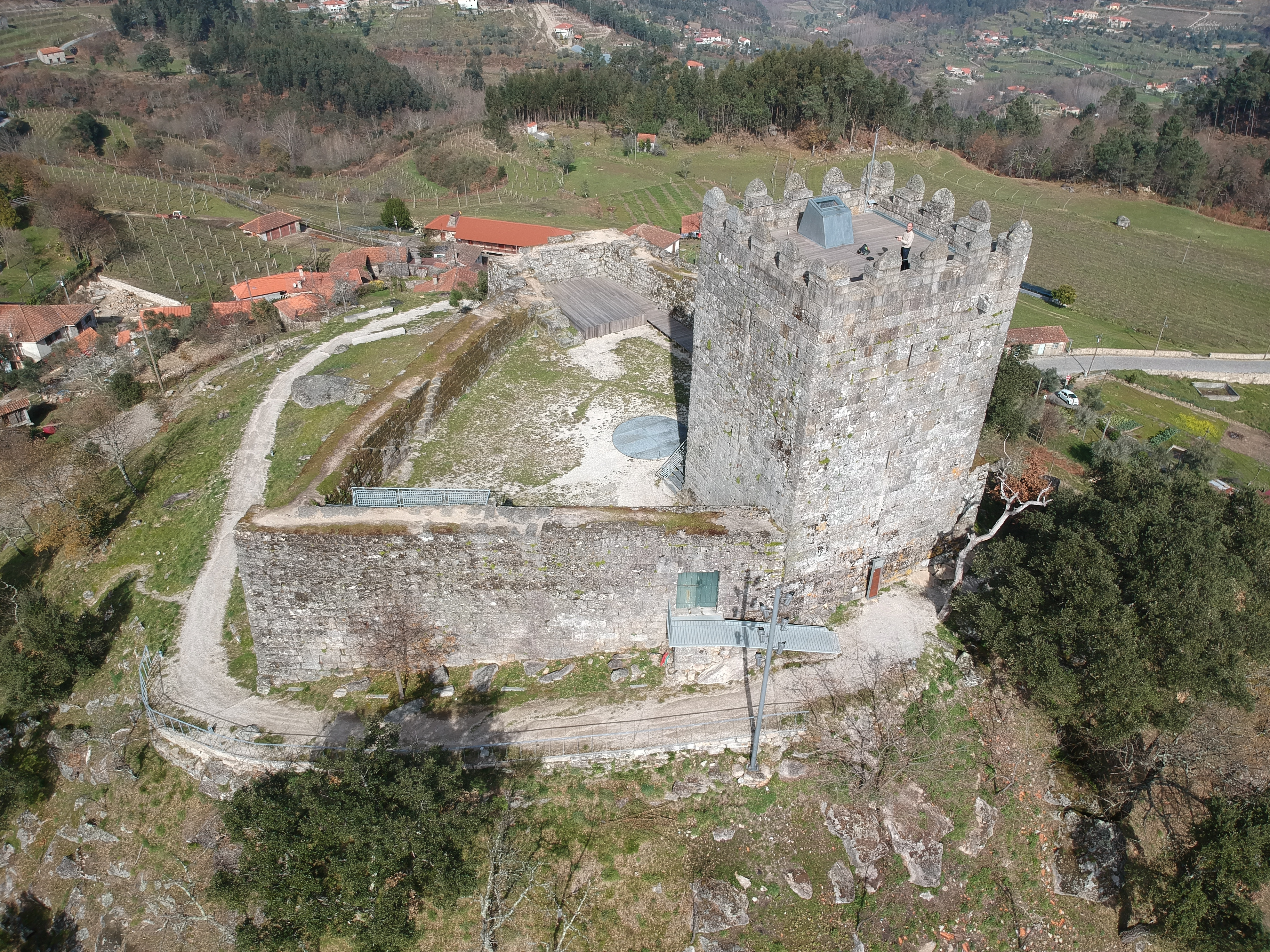 Castelo de Arnóia, Celorico de Basto, Portugal.